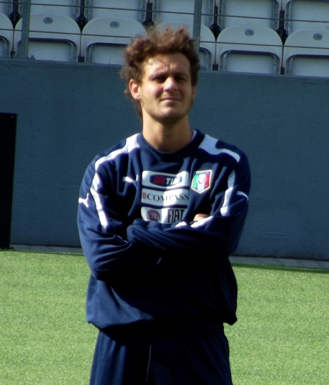 Alessandro Diamanti attends a training session during the Euro 2012 in Krakow June 26, 2012.